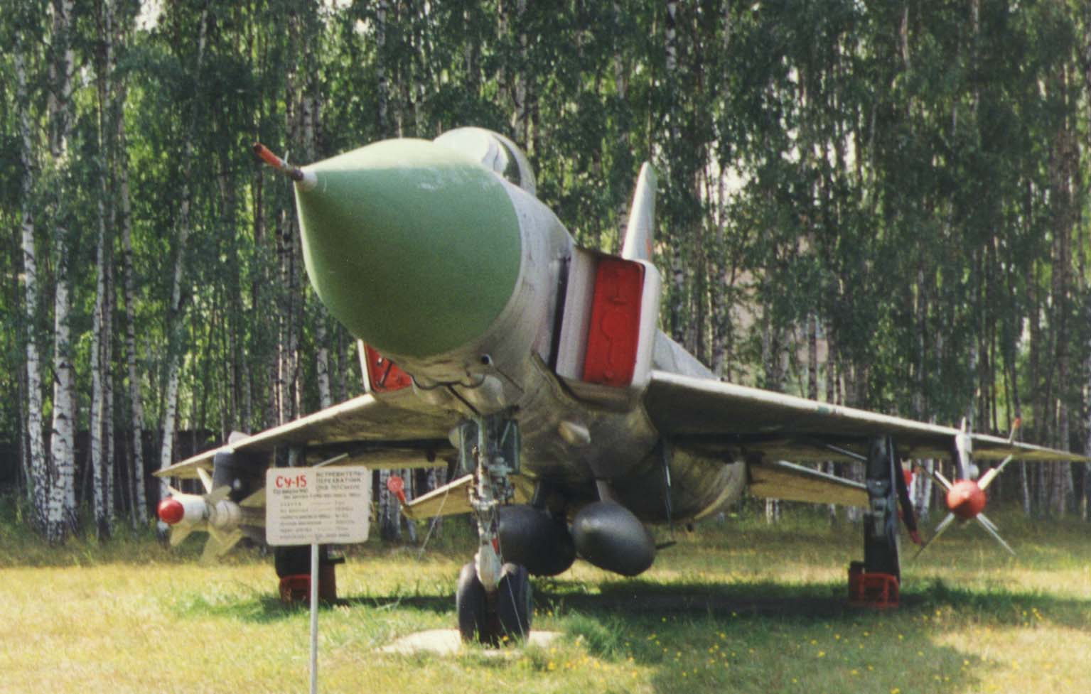 Sukhoi Su-15 at Monino museum